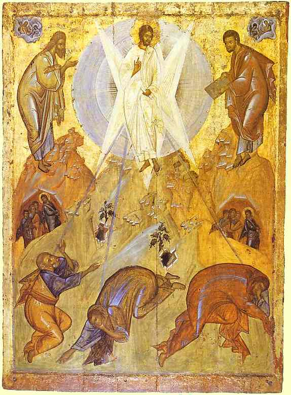 The Transfiguration. 184 x 134 cm. Tempera on wood. From the Cathedral of Transfiguration in Pereslavl, now in the Tretyakov Gallery.